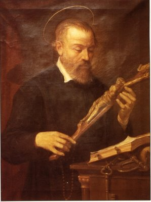 Saint Girolamo Emiliani's portrait